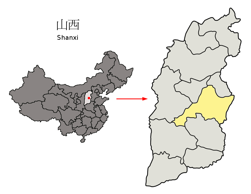 Location of Jinzhong Prefecture (yellow) within Shanxi Province of China Map drawn in december 2007 using various sources, mainly : Shanxi Province administrative regions GIS data: 1:1M, County level, 1990 Shanxi Counties map from